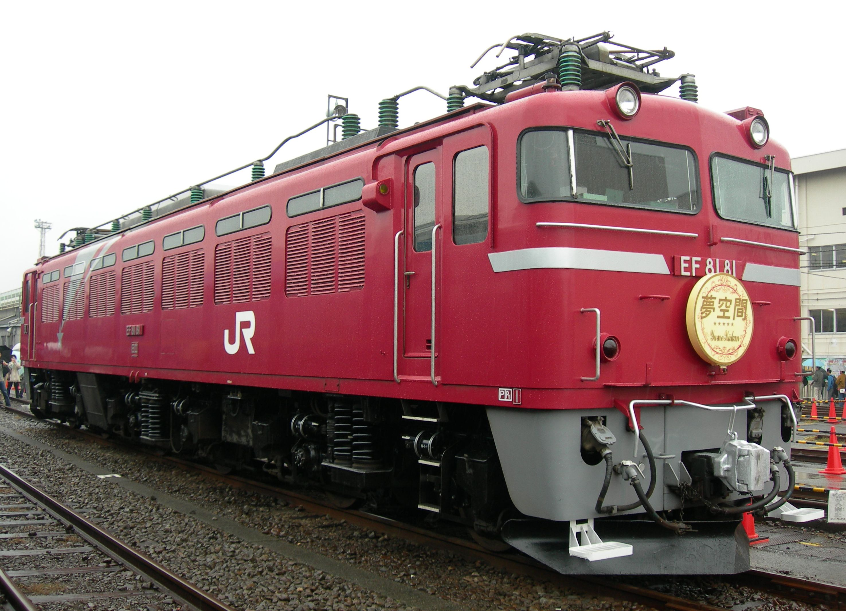 JR East Class EF81 electric locomotive EF81 81 at Oku Depot open day